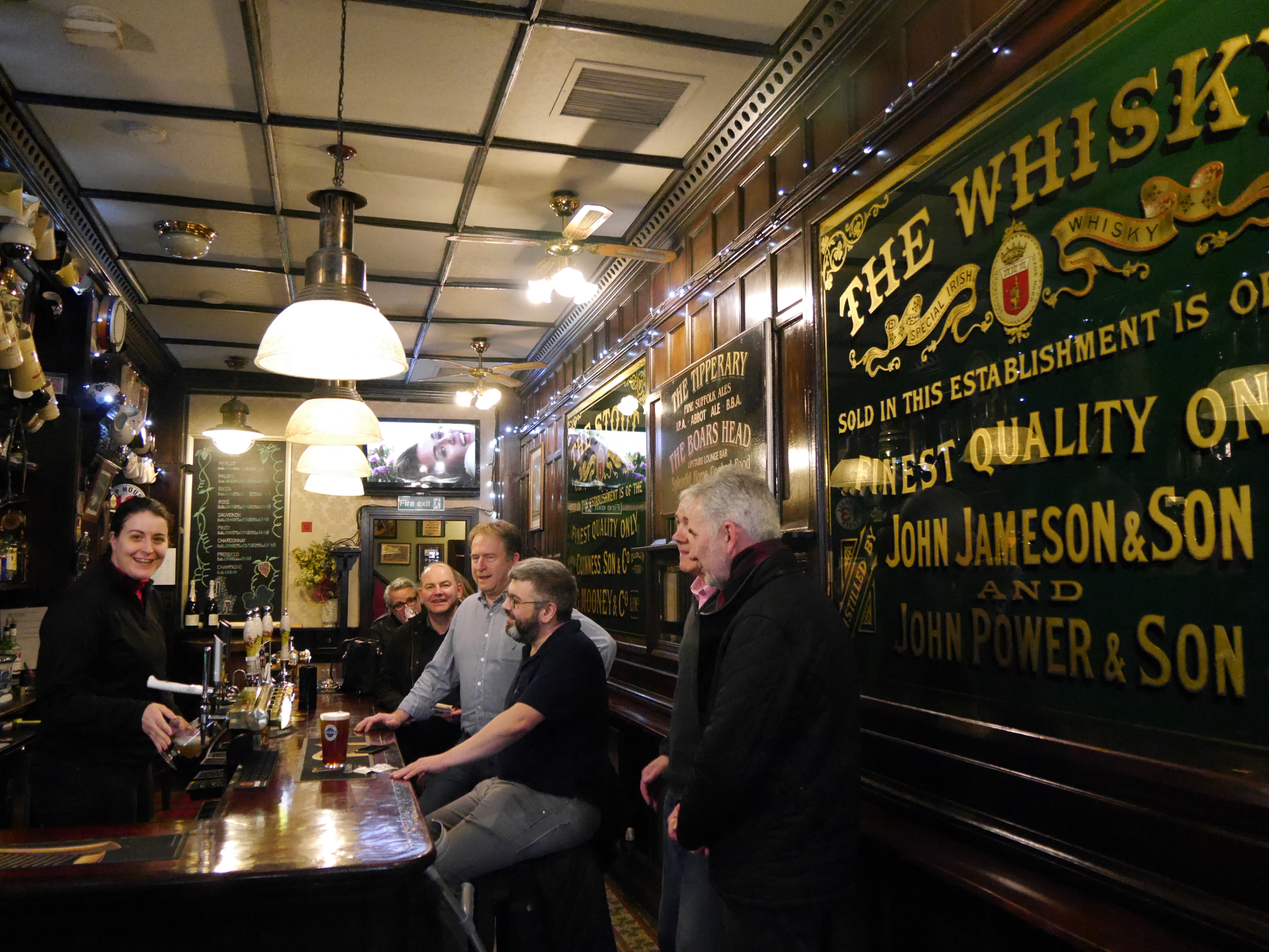 The Tipperary, London, January 2018